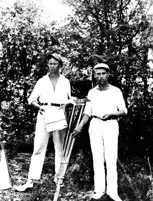 Founder of Suomi-Filmi and Suomen Filmiteollisuus Erkki Karu (1887-1935) (left) with Eino Kari in 1927